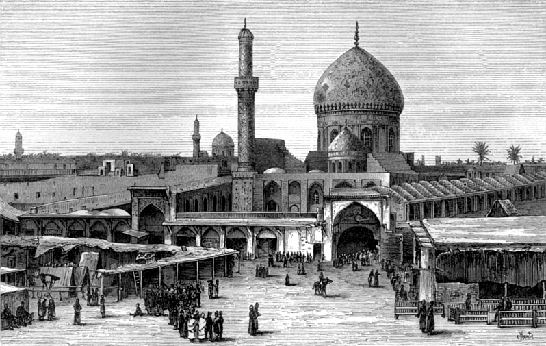 Wood engraving of "The thrones and palaces of Babylon and Nineveh" by John Philip Newman. Page 105